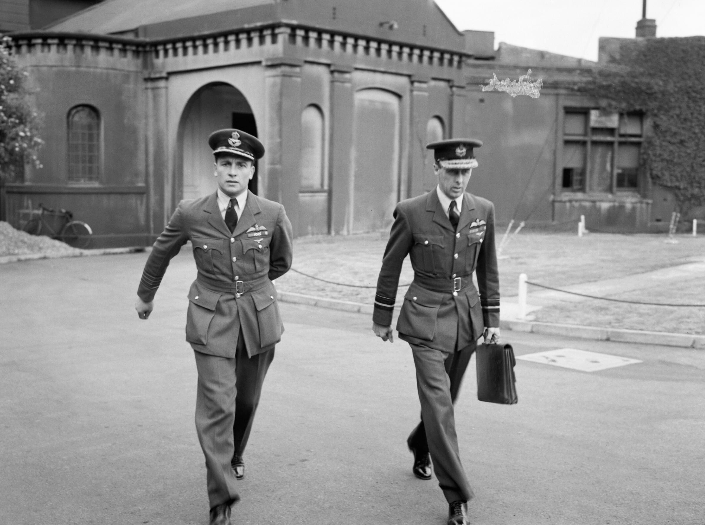 Royal Air Force Bomber Command, 1942-1945. Group Captain J H Searby, the Command Navigation Officer, and Air Vice-Marsal D C T Bennett, Air Officer Commanding No. 8 (PFF) Group, leave the Headquarters of Air Defence of Great Britain, Bentley Priory, Middlesex, after a conference.